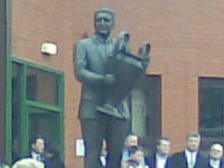 The Jock Stein statue at Celtic Park, created by the Sculptor John McKenna ARBS